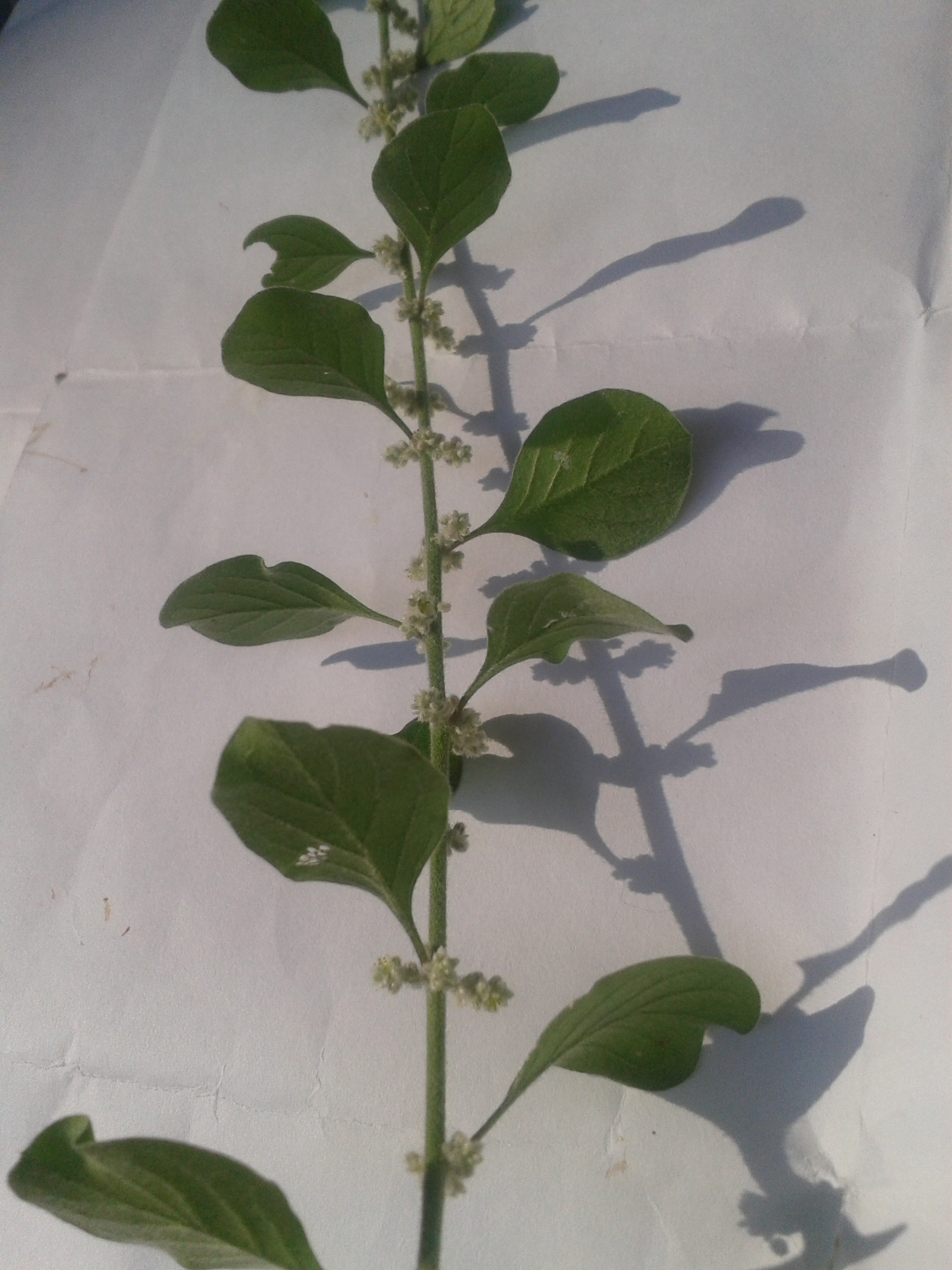 சிறுகண் பீளை Botanical name – Aerva lanata Common name - mountain knotgrass Tamil name – SIRUKAN PEELAI ‘little excreta of eye’ (சிறுகண் பீளை) Dried flowers are sold as medicine; For Kidney stone and Piles this is administered as medicine; Lleaves are put into soup;Plant is used for the treatment of snakebite;Plant is also used as talisman for the well-being of widows S.Soundarapandian (talk) 13:39, 19 April 2015 (UTC)